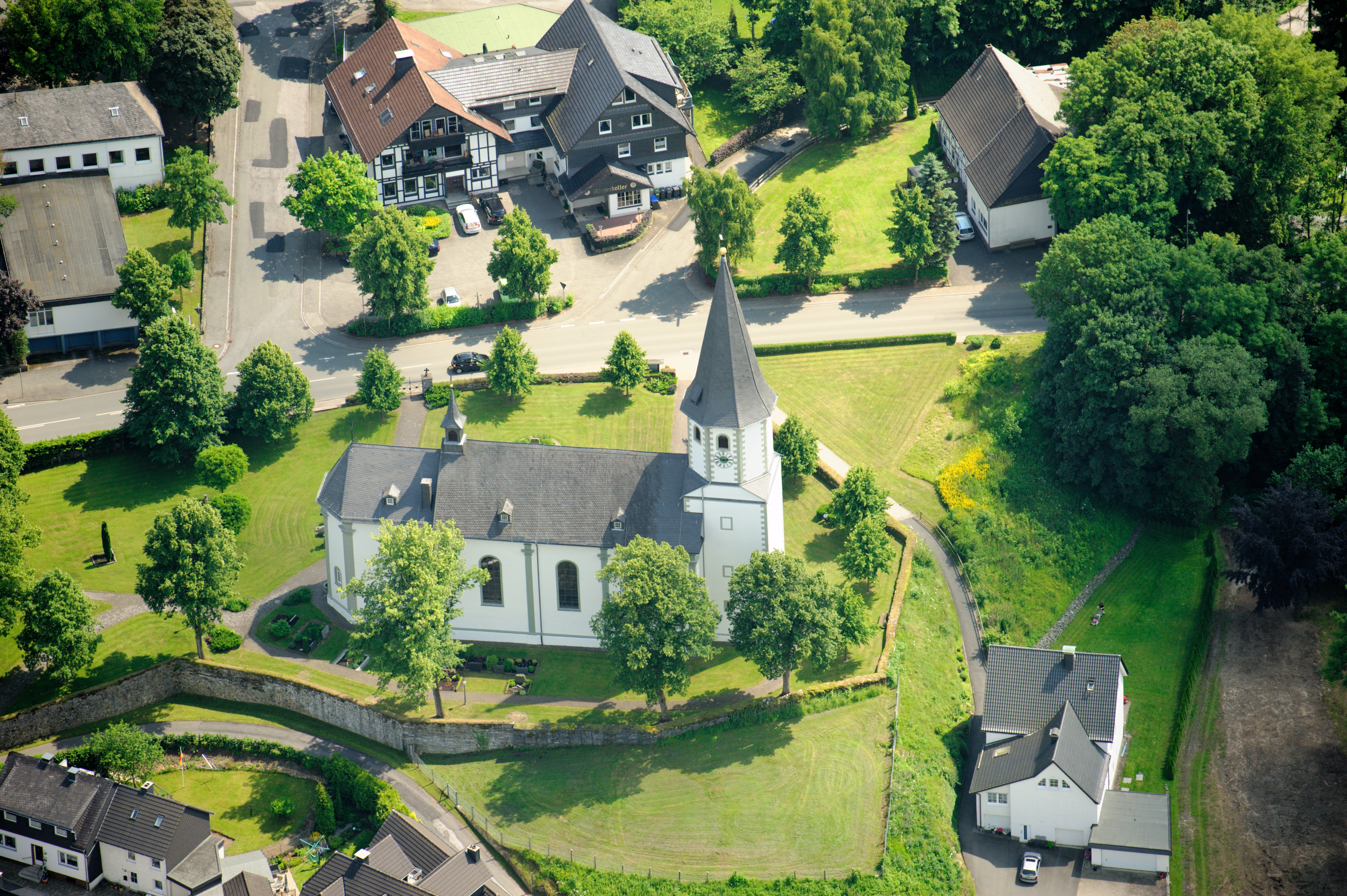 Fotoflug Sauerland-Ost; St. Laurentius Scharfenberg, Stadt Brilon The making of this document was supported by the Community-Budget of Wikimedia Germany.